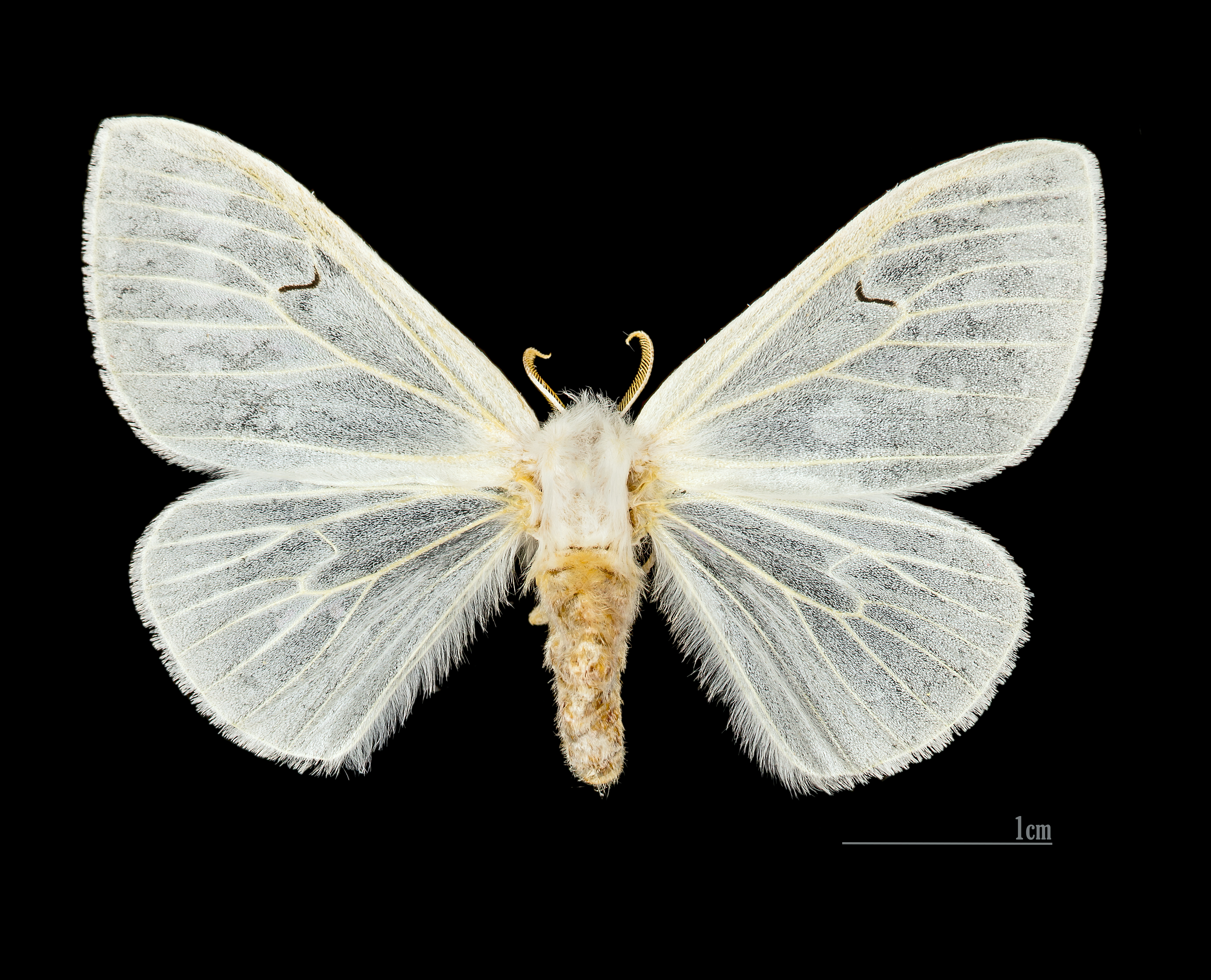 Black V Moth. Dorsal side